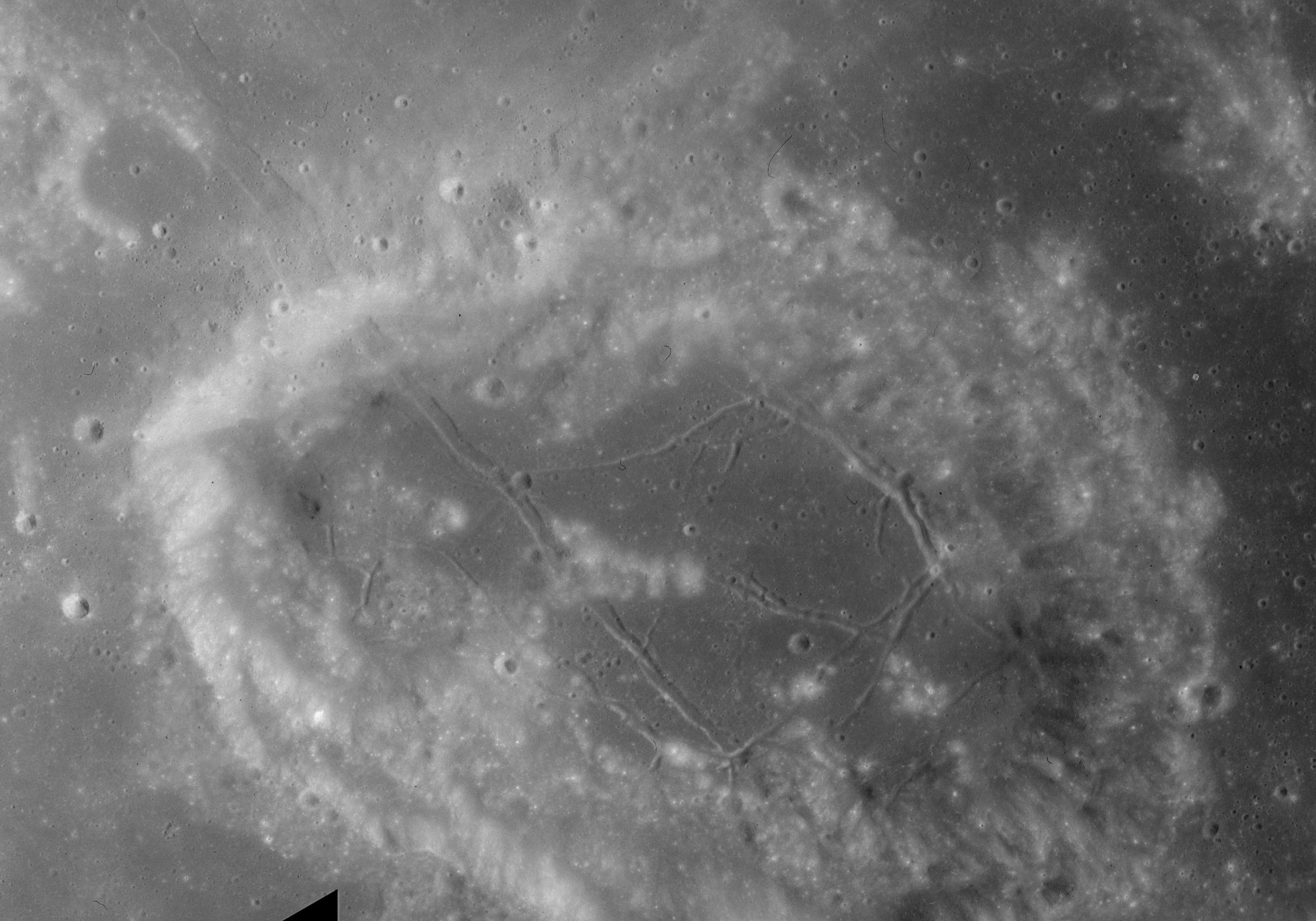 Most of Goclenius crater, on the moon.